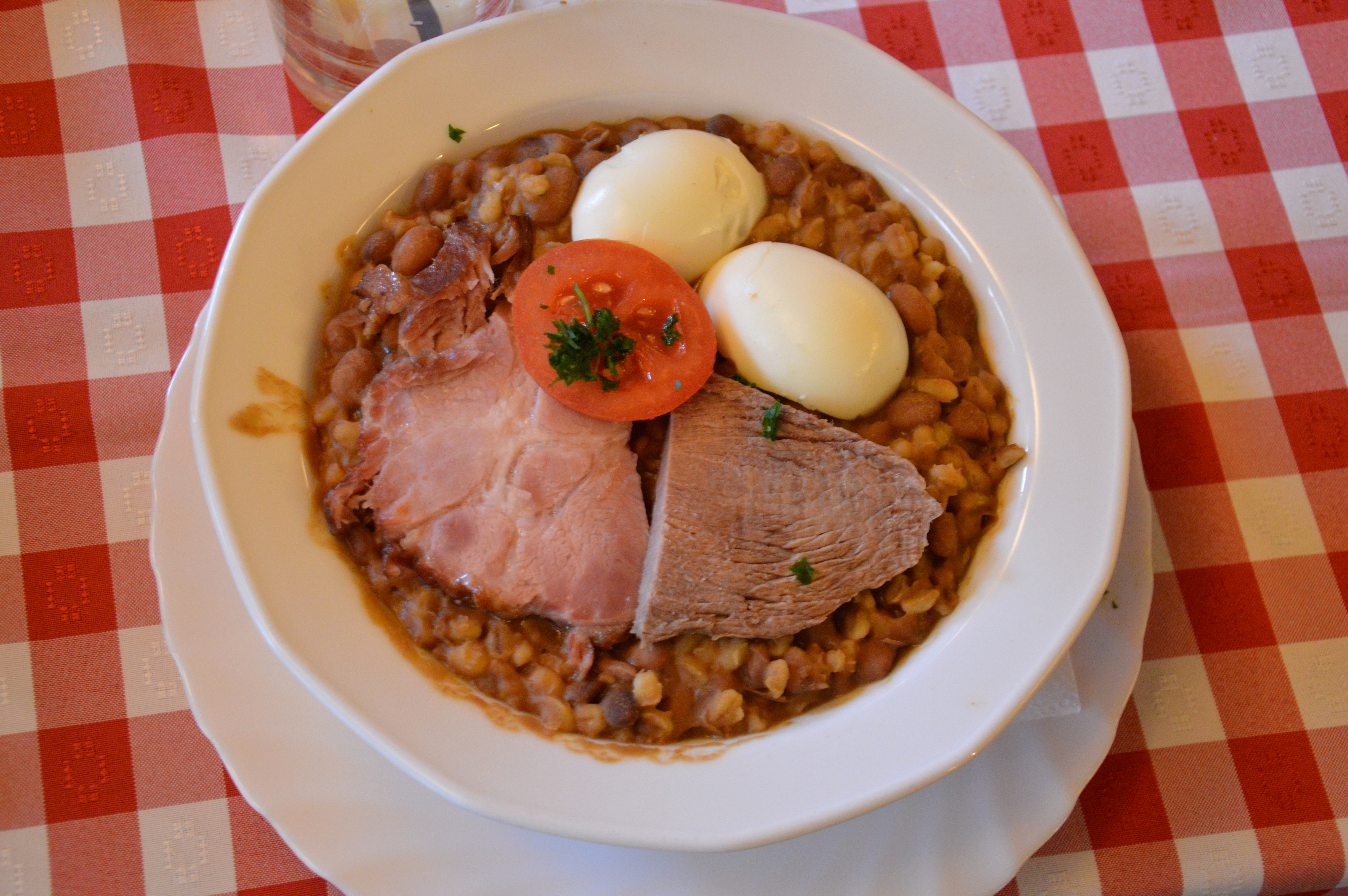 A bowl of sólet with a slice of ham, a slice of roast beef, a slice of tomato, and a halved egg, as served at Pozsonyi Kisvendéglő in Budapest, Hungary. Sólet is a traditional Hungarian-Jewish stew made with kidney beans, barley, onions, paprika, and usually meat. While traditionally a Jewish food, prepared on Fridays before Shabbat and eaten the following day for lunch, it is also commonly eaten by other Hungarians who may even add pork.